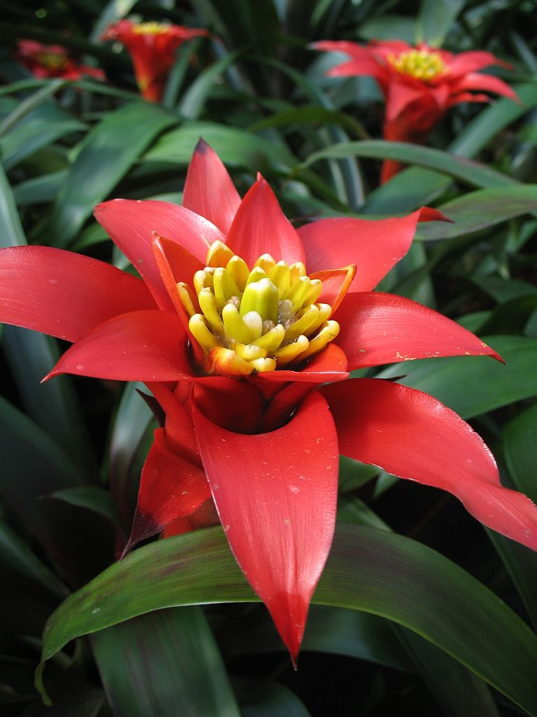 Guzmania lingulata, in cultivation at the Botanical Garden of Heidelberg, Germany.